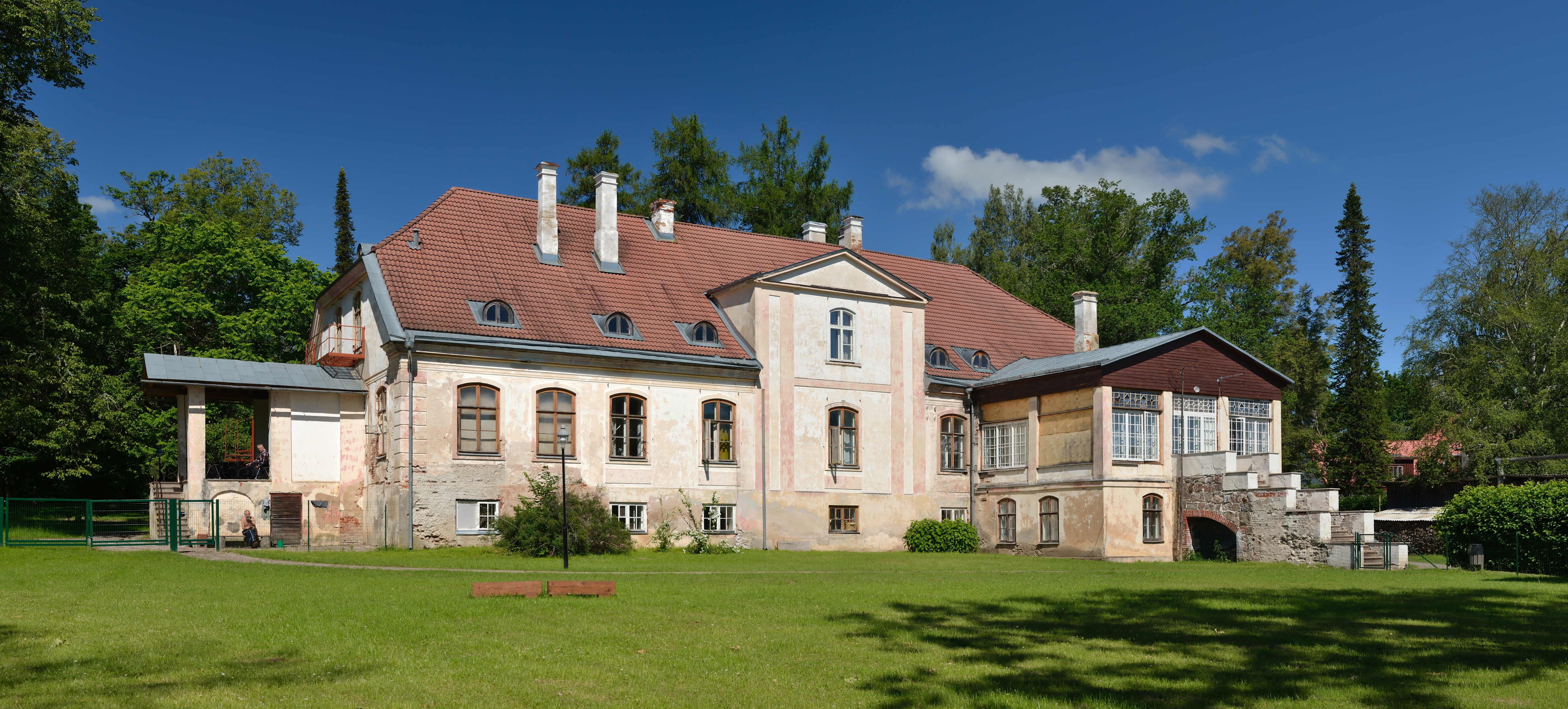 Hellenurme manor main building